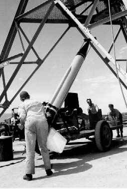 WAC Corporal preparing to launch at the White Sands Missile Range.